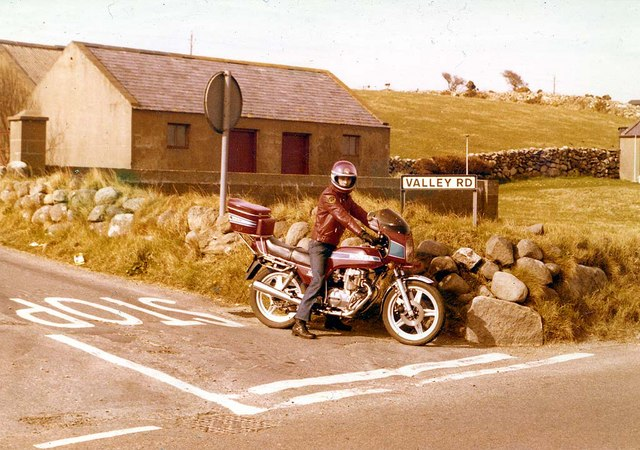 Valley Road, Annalong A motorcyclist is about to turn left at the Valley Road junction and travel along the Kilkeel Road to Annalong